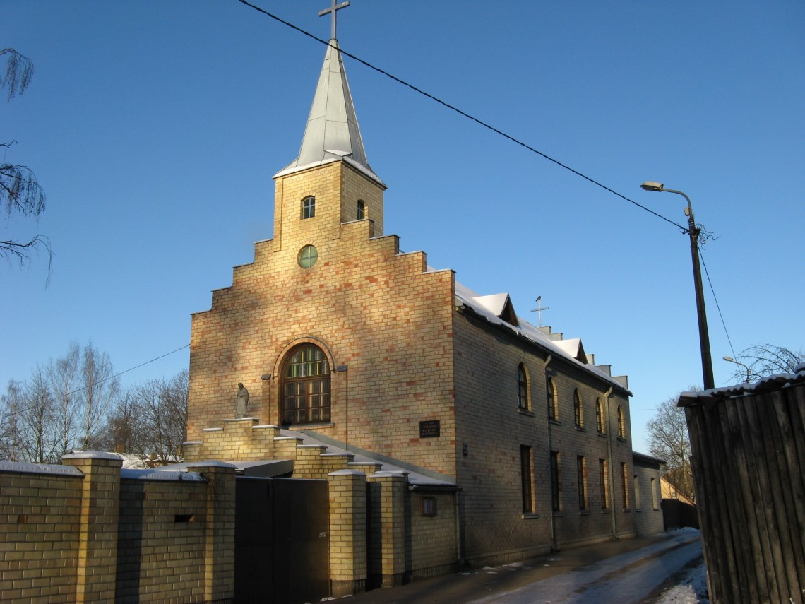 Saint Joseph Roman Catholic Church in RigaLatviešu: Rīgas Svētā Jāzepa Romas katoļu baznīca